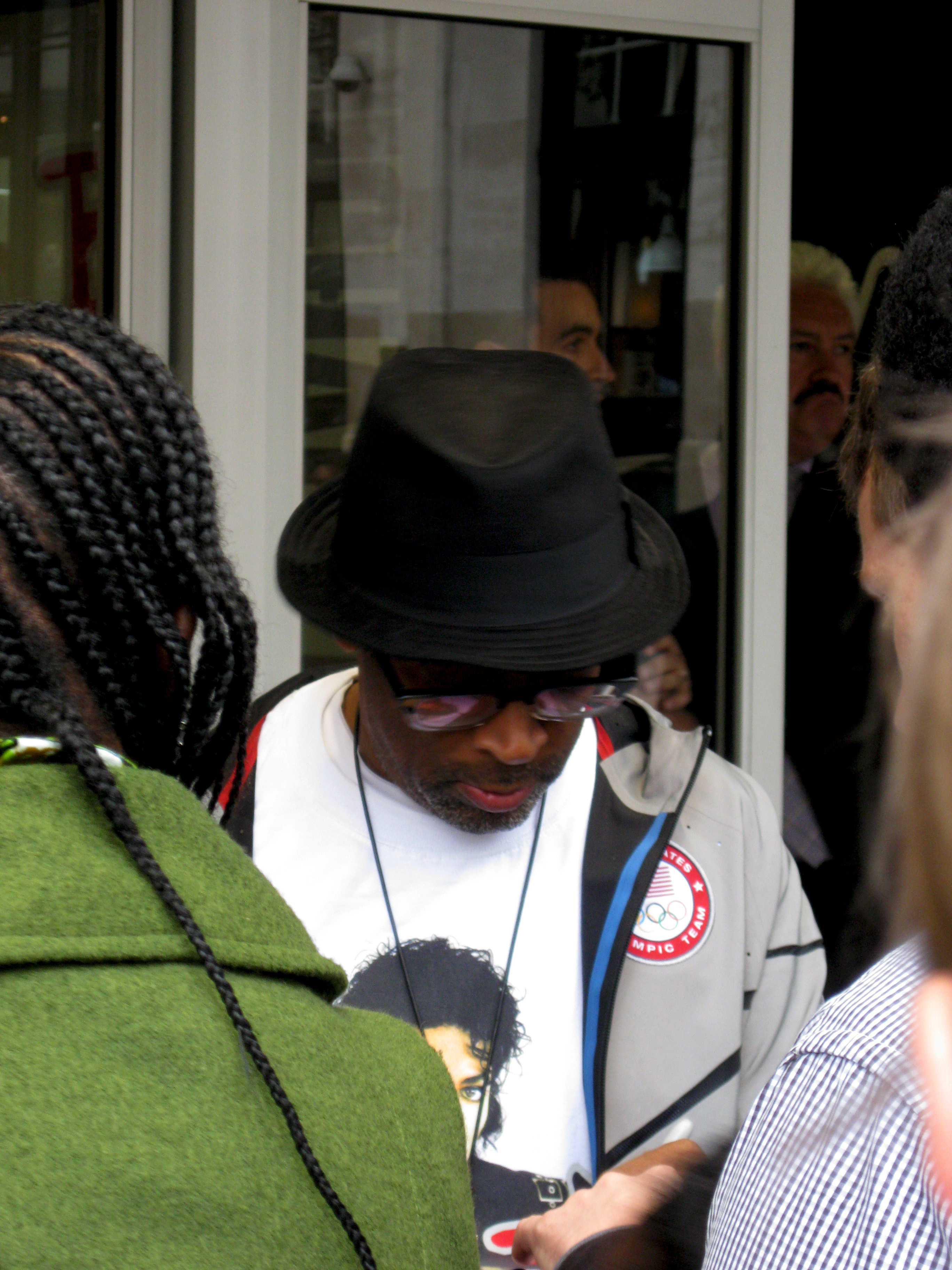 Spike Lee (Film Director) at the London premier of Bad 25, a film which he directed. It focused upon the creative process of Michael Jackson in collaboration with a whole host of people for the Bad album and short films.